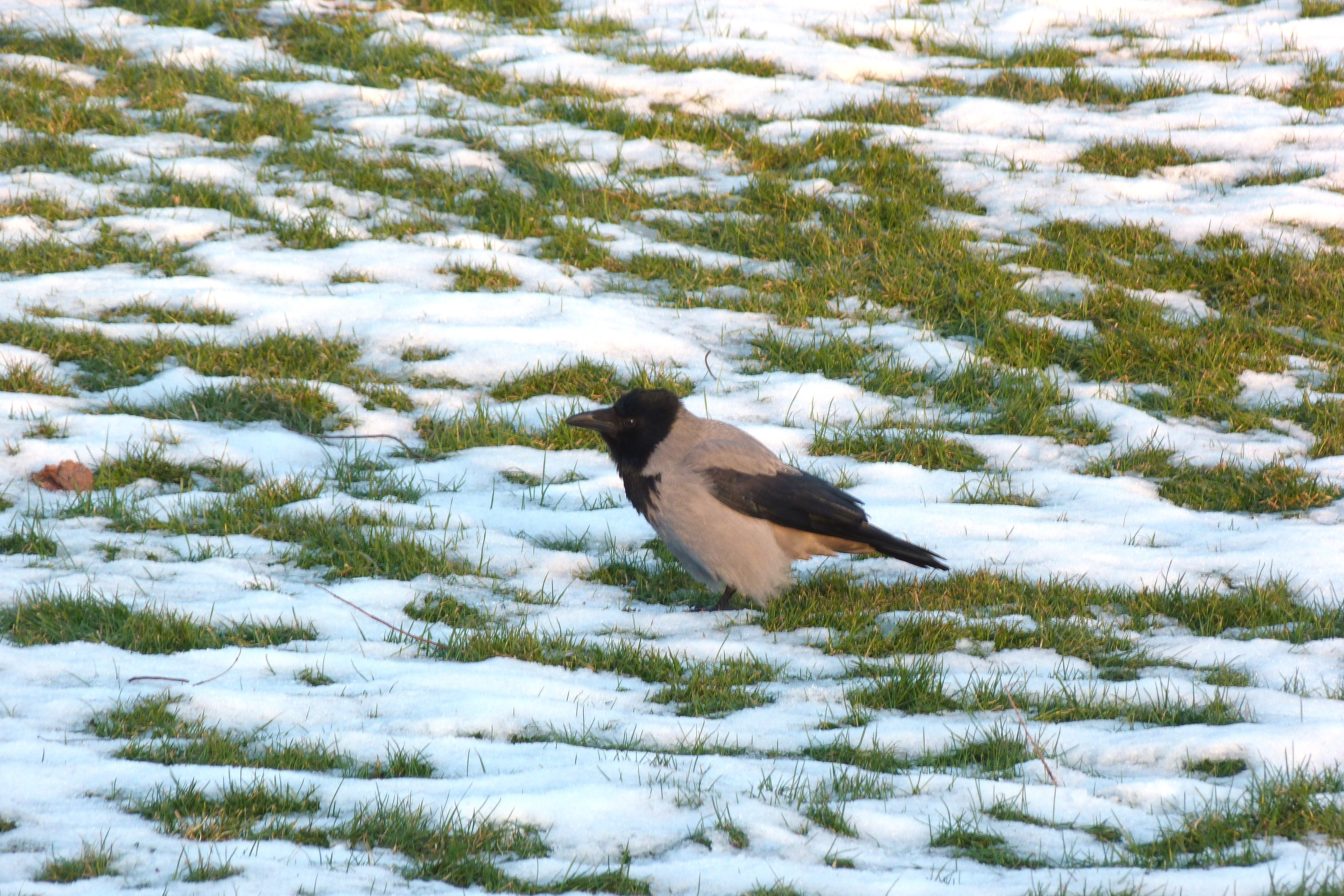 Corvus cornix Linnaeus, 1758, Hooded Crow, Kongens Have, København, Denmark, 15 February 2012